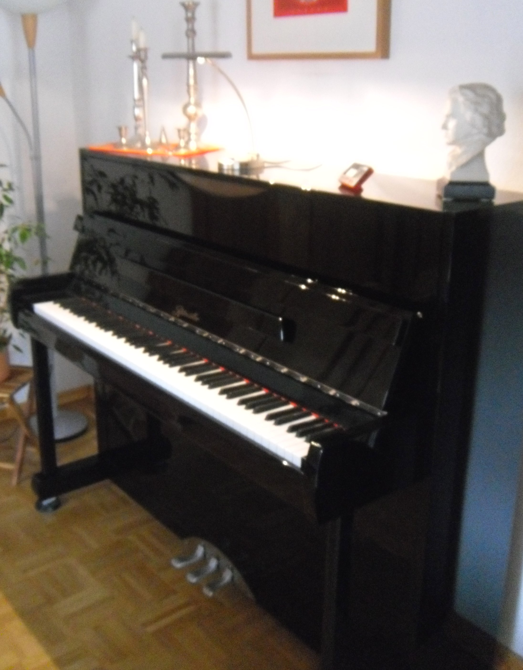 Ritmüller upright piano